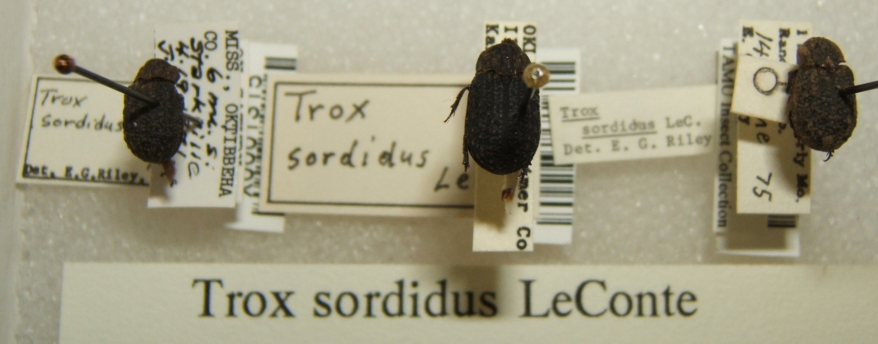 Trox sordidus adult taken by Shawn Hanrahan at the Texas A&M University Insect Collection in College Station, Texas. Cropped version: Trox sordidus sjh.cropped.jpg